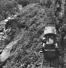 Charming Creek Tramway - WD 40 nudging down the gorge with a full load. Alexander Turnbull Library, (NLPS) 34013½